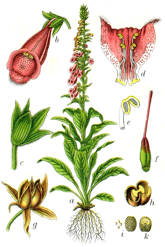 Digitalis purpurea L. Original Description Roter Fingerhut, Digitalis purpurea